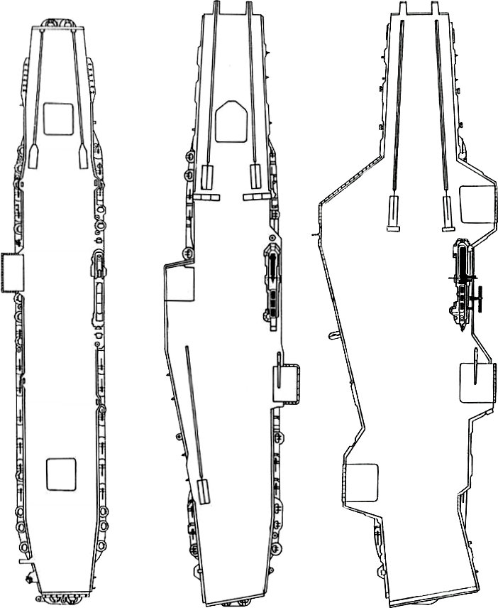 Deck plans of the U.S. Navy aircraft carrier USS Midway (CV-41) (l-r): as completed, in 1945; following her SCB-110 refit, in 1957; following her SCB-110.66 refit, in 1970.